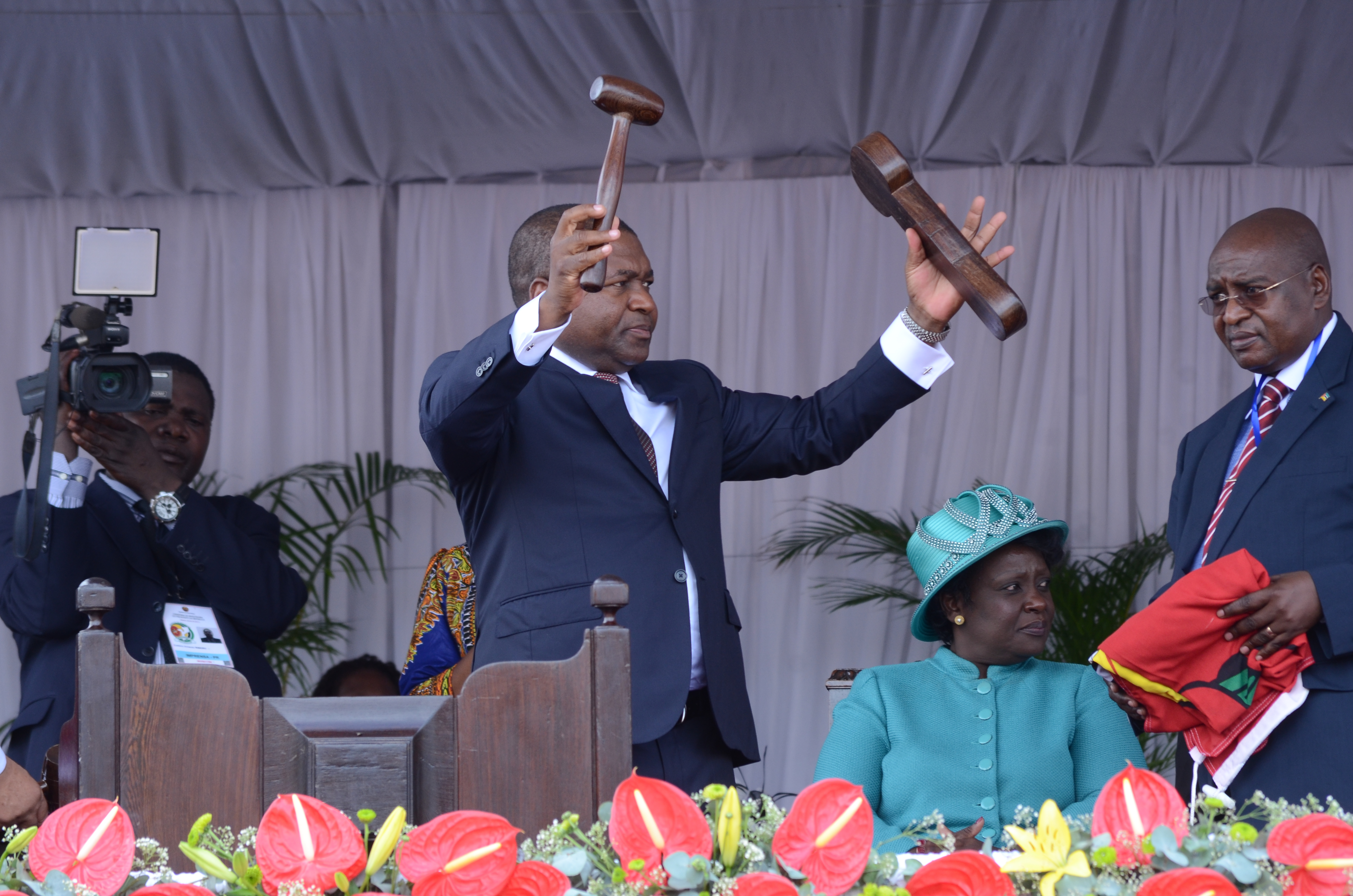 Filipe Nyusi at his installation as Mozambique's president